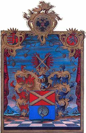 Arms of the noble family Gelmini von Kreutzhof